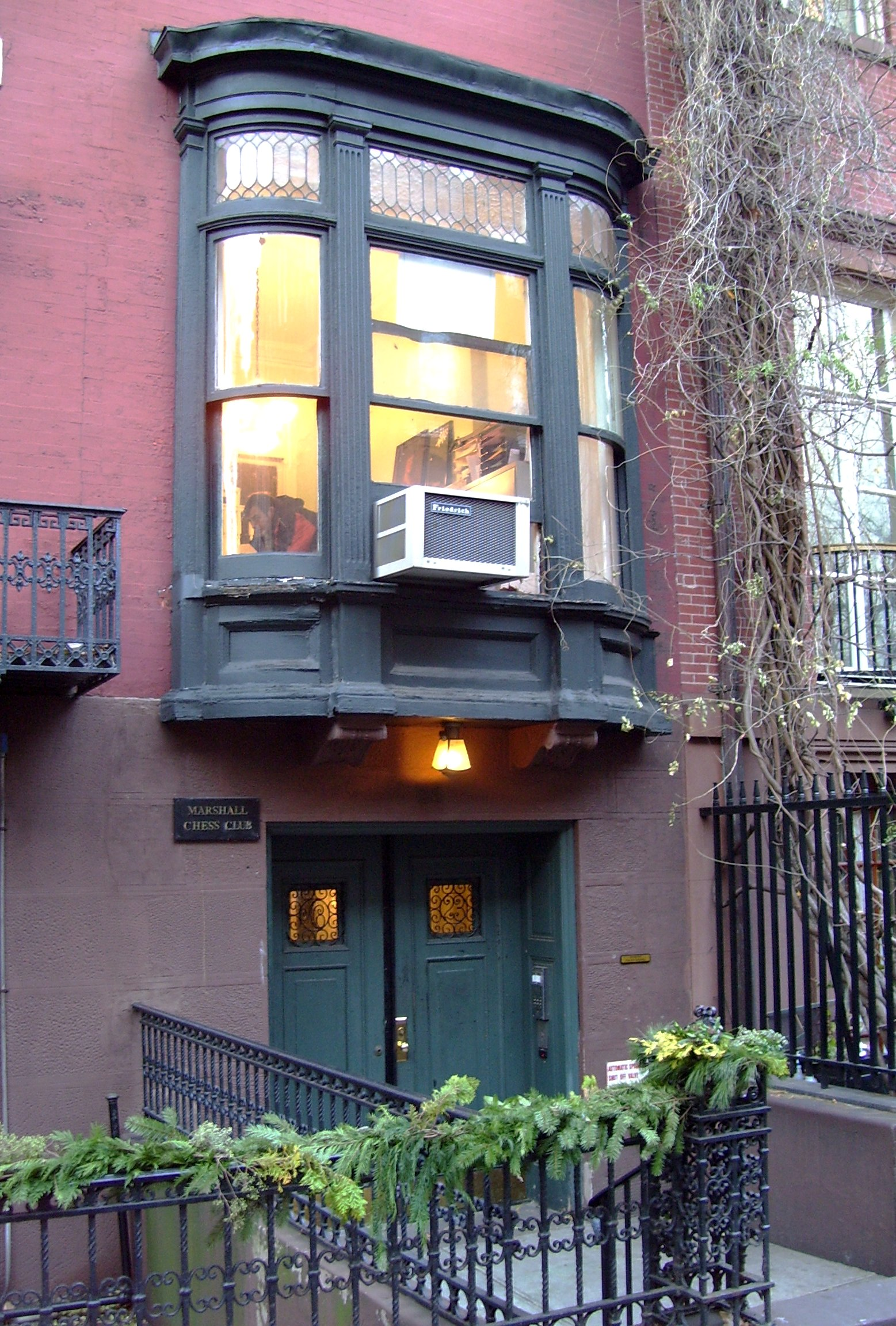 The entrance to the Marshall Chess Club at 25 West 10th Street, between Fifth and Sixth Avenues in Greenwich Village, New York City.